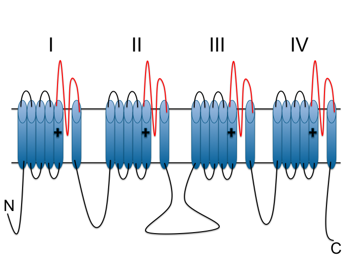 Schematic representation of the alpha subunit of voltage-dependent calcium channels. It is composed of four homologous domains, each with six transmembrane segments. The S4 segment of each domain is positively charged, indicated by a "+", and the P-loop between S5 and S6 of each domain has been highlighted red.